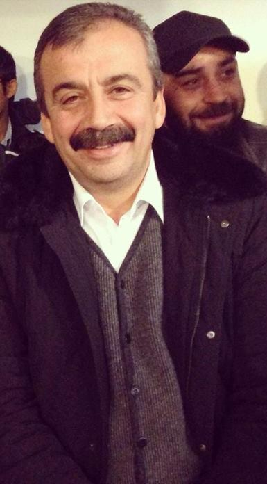 Sırrı Süreyya Önder, a Turkish film director, actor, screenwriter, columnist and politician.